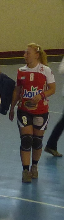 Greek hanball player Anna Stratou.